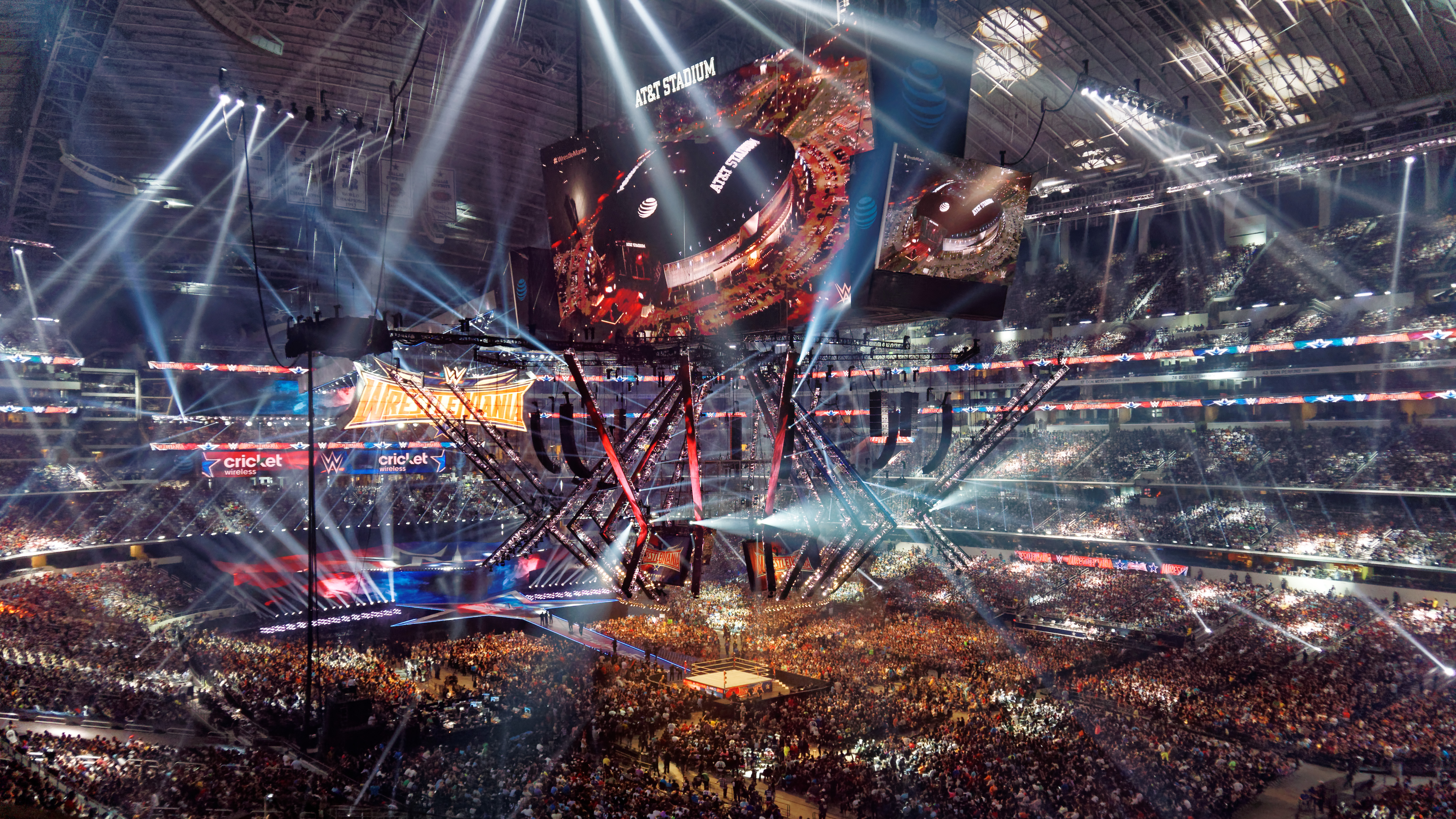 WrestleMania 32 was the thirty-second annual WrestleMania professional wrestling pay-per-view (PPV) event produced by WWE. It took place on April 3, 2016, at AT&T Stadium in Arlington, Texas. Twelve matches were contested on the card (with three matches occurring on the WrestleMania Kickoff pre-show - two airing live on the USA Network, which televised the second hour of the pre-show). Baron Corbin Adam Rose, Bo Dallas, Curtis Axel, Damien Sandow, Darren Young, Diamond Dallas Page, Fandango, Goldust, Heath Slater, Jack Swagger, Kane, Konnor, Mark Henry, R-Truth, Shaquille O'Neal, Tatanka, The Big Show, Tyler Breeze, Viktor (in 09:43) Type of match : Battle Royal for the Andre the Giant Memorial Trophy Rating : *1/2